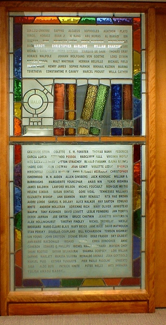 An image of the logo for the Pride Library. Uploaded with permission of the creator of the Pride Library and the owner of the photograph, James Miller. Photo was taken with a digital camera. Image was cropped to contain only the stained glass window. Artist: Lynette Richards